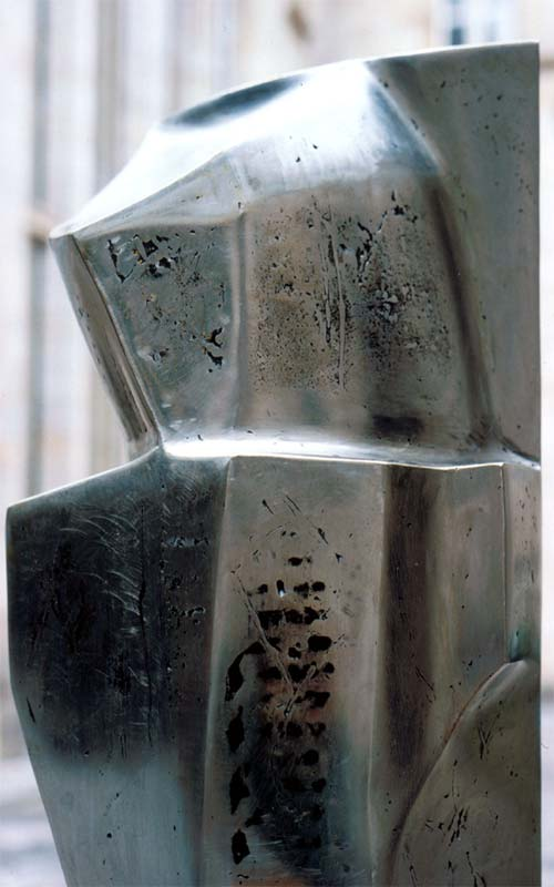 Monument for the Unknown Deserters of the German Wehrmacht memorial for the victims of the German military justice in Second World War – To all who resisted the Nazi regime established 1995 citadel Petersberg Erfurt/Germany artist Thomas Nicolai / AAA.